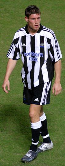 James Milner, Newcastle player